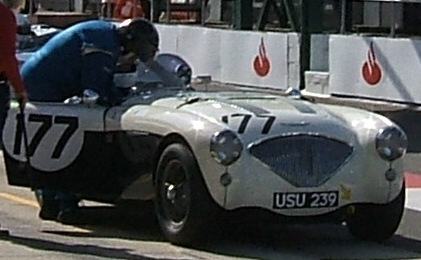 Cropped version of File:Austin-Healey 100M Silverstone 2007.jpg